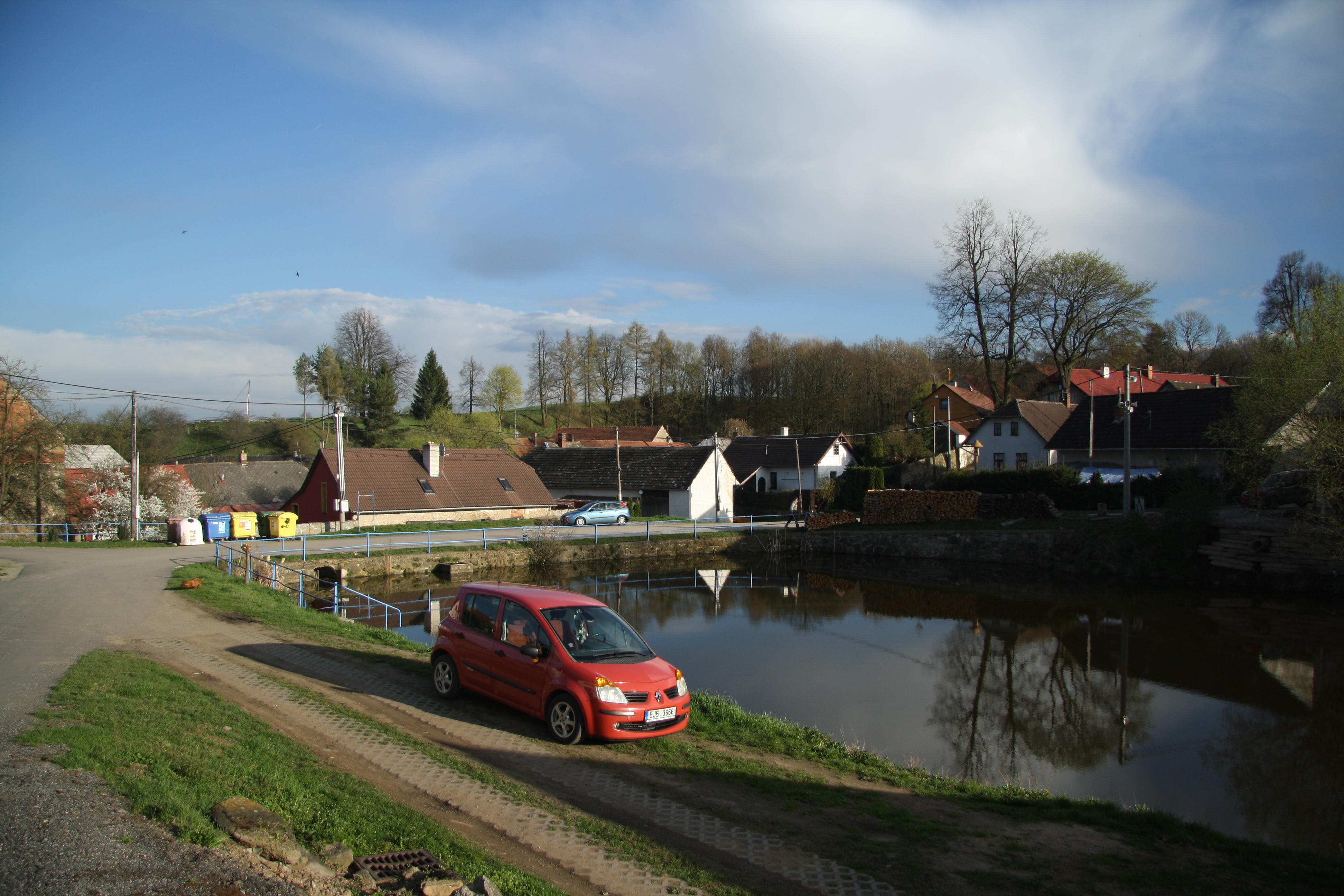 Center of Malé, Brtnice, Jihlava District.